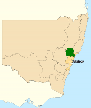 Incorporates or developed using Administrative Boundaries ©PSMA Australia Limited licensed by the Commonwealth of Australia under Creative Commons Attribution 4.0 International licence (CC BY 4.0). Derived from State and Territory Boundaries from the Australian Bureau of Statistics under Creative Commons Attribution 2.5 Australia license (CC BY 2.5 AU)